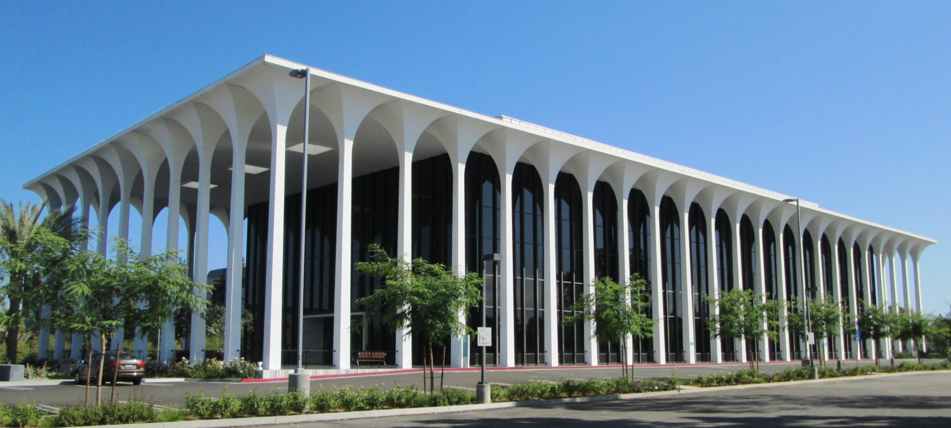 The Taj Mahal Medical Center at 23521 Paseo de Valencia in Laguna Hills, California was built in 1964 and was designed by Burke, Kober & Nicholais in the neo-classical style. (Source: "Taj Mahal Medical Center")